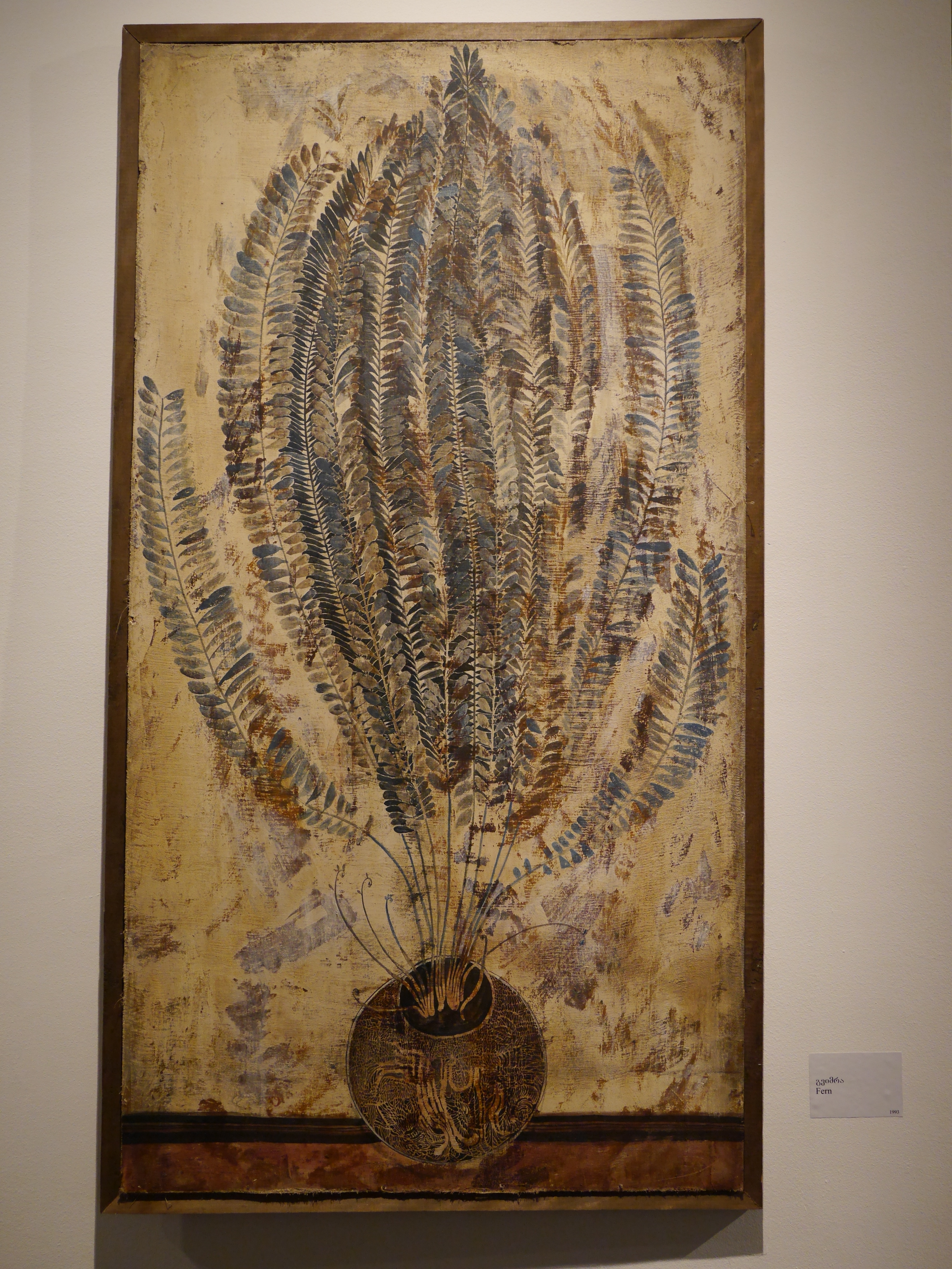 Merab Abramishvili's paintings.